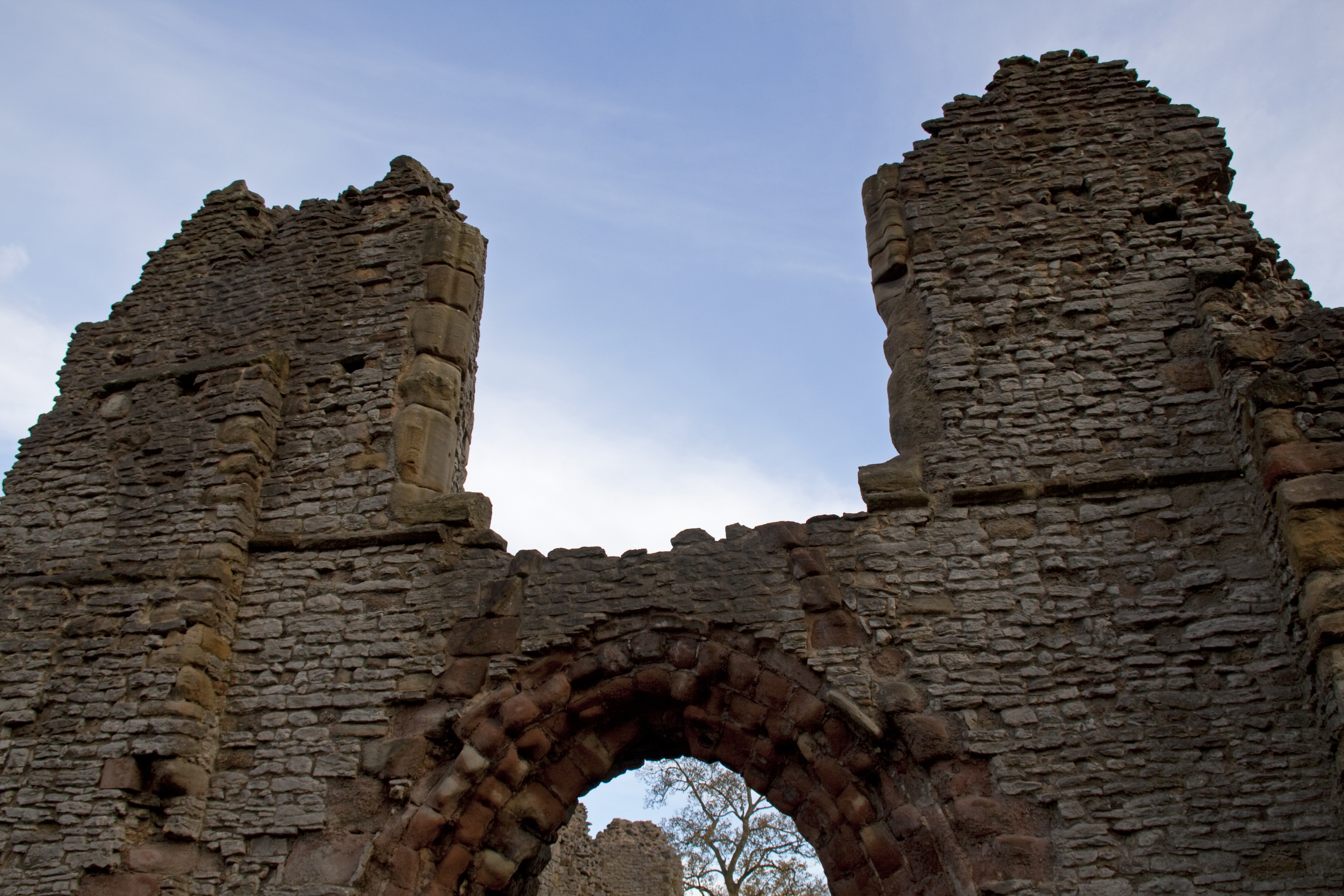 The ruins of Dudley Priory. The priory was founded in 1160 by Gervase Paganel, Lord of Dudley. The priory was closed by King Henry VIII in the 1530s as part of the nationwide Dissolution of the Monasteries.